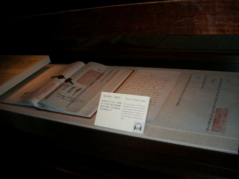 Replica at Hong Kong Museum of History. Signed at the end of the Opium War in 1842, this treaty ceded Hong Kong Island to the British.